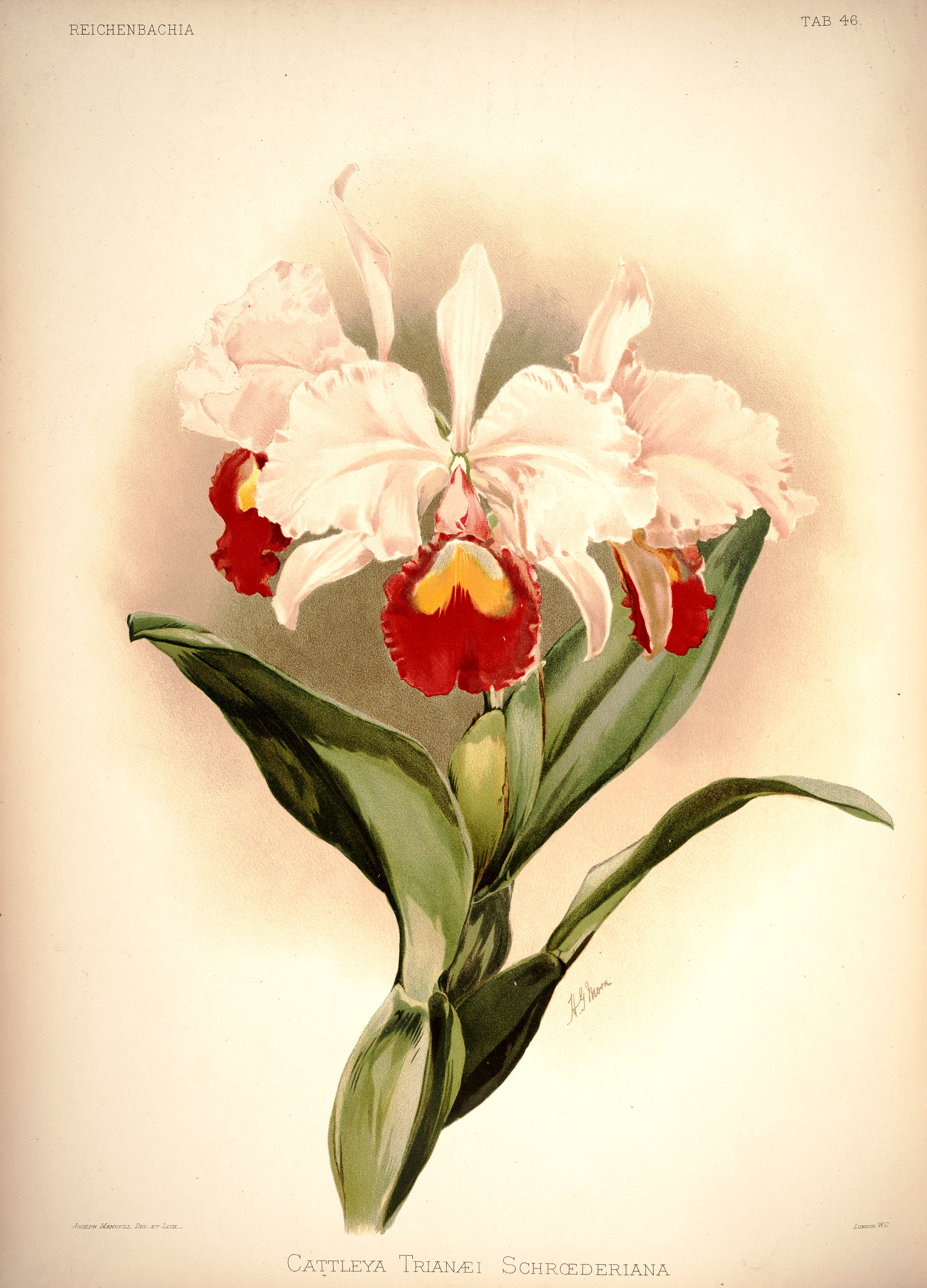 Cattleya trianae